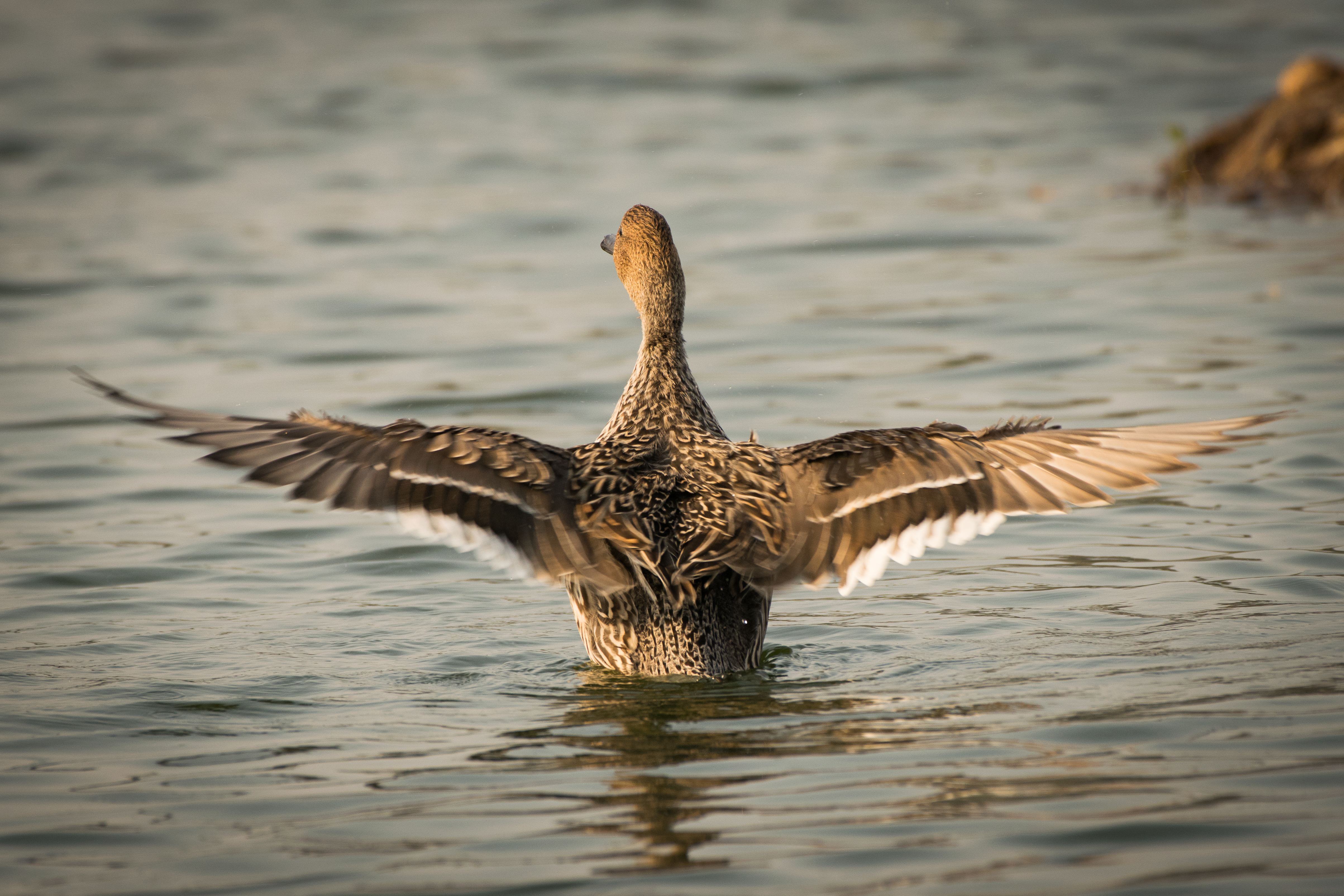 This is the image of a Northern Pintail (f) duck with its wings spread. The image is shot from behind the duck at Santragachi Lake, Kolkata